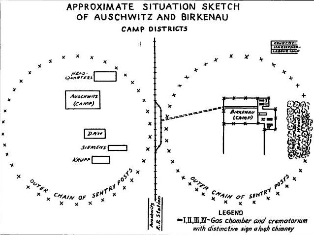 Sketch of the Auschwitz-Birkenau gas chambers and crematoria from the English-language version of the Vrba-Wetzler report, November 1944, first written in Slovakian and German, April 1944.